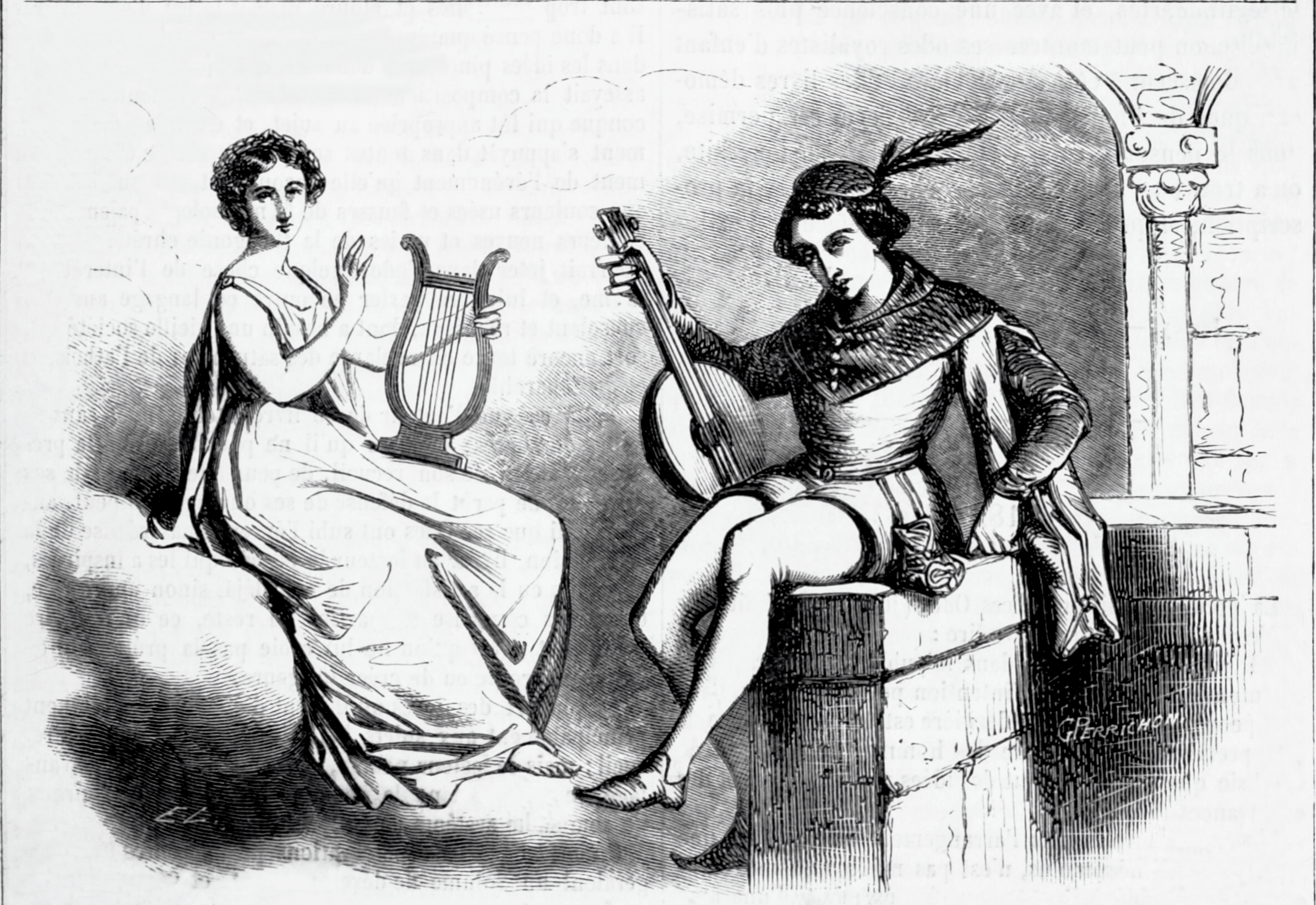 Odes et Ballades (1828) by Victor Hugo (1840-1902)